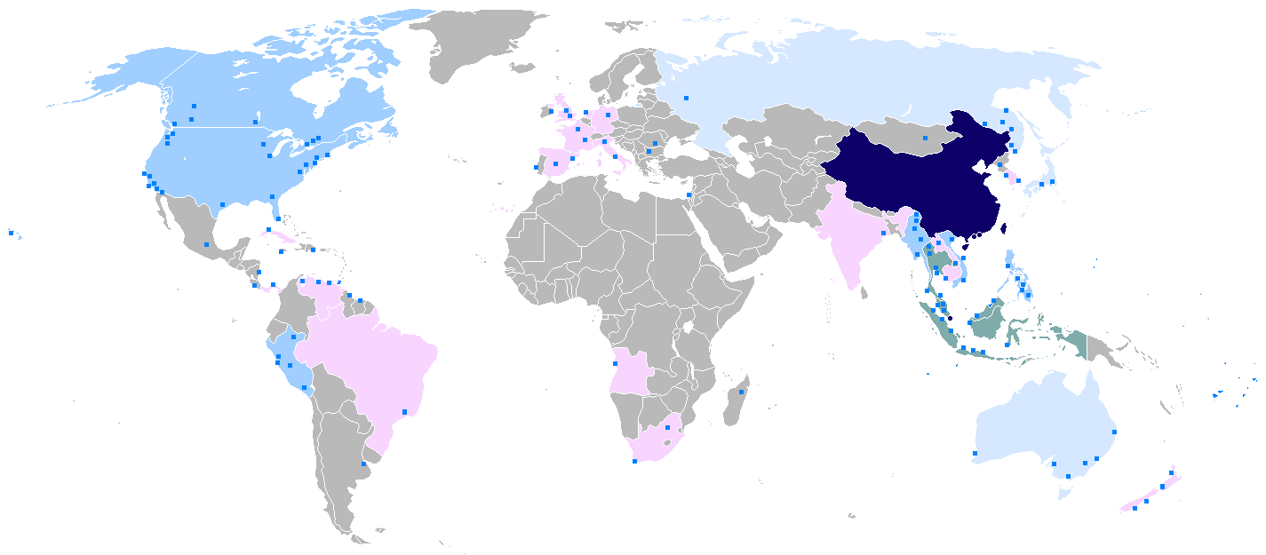 A map of the Sinophone world.Information: Countries identified Chinese as a primary, administrative, or native language Countries with more than 5,000,000 Chinese speakers w/ or w/o recognition Countries with more than 1,000,000 Chinese speakers w/ or w/o recognition Countries with more than 500,000 Chinese speakers w/ or w/o recognition Countries with more than 100,000 Chinese speakers w/ or w/o recognition Major Chinese speaking settlements